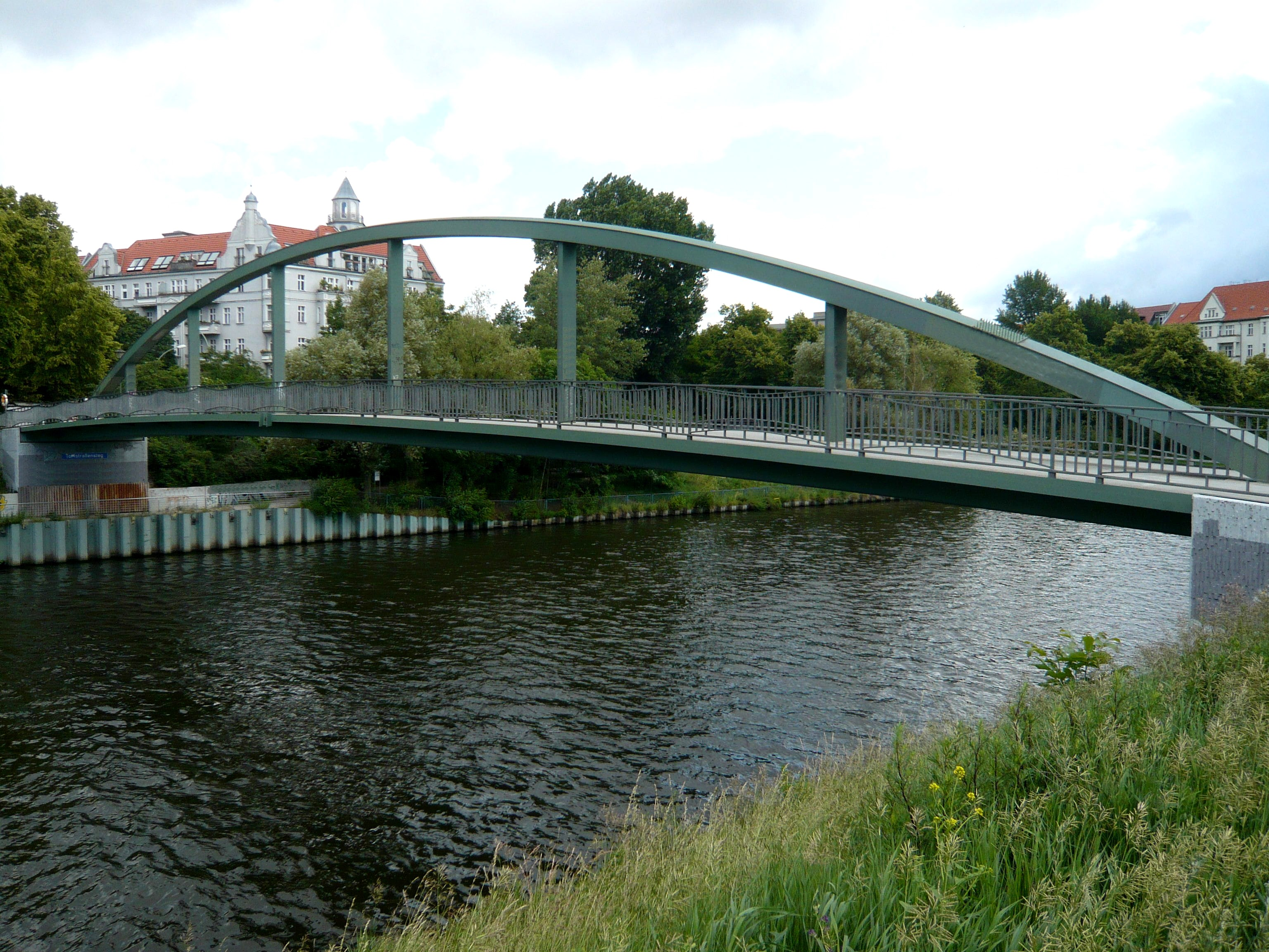 Food bridge named Torfstraßensteg crossing Berlin-Spandauer Schifffahrtskanal in Berlin